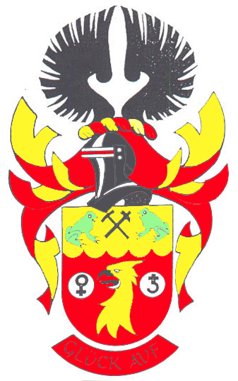 Coat of arms of Tsumeb, Namibia